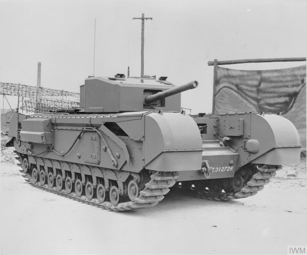 British Tanks and Armoured Fighting Vehicles 1939-45 Infantry Tank Mk IV Churchill III (A22)